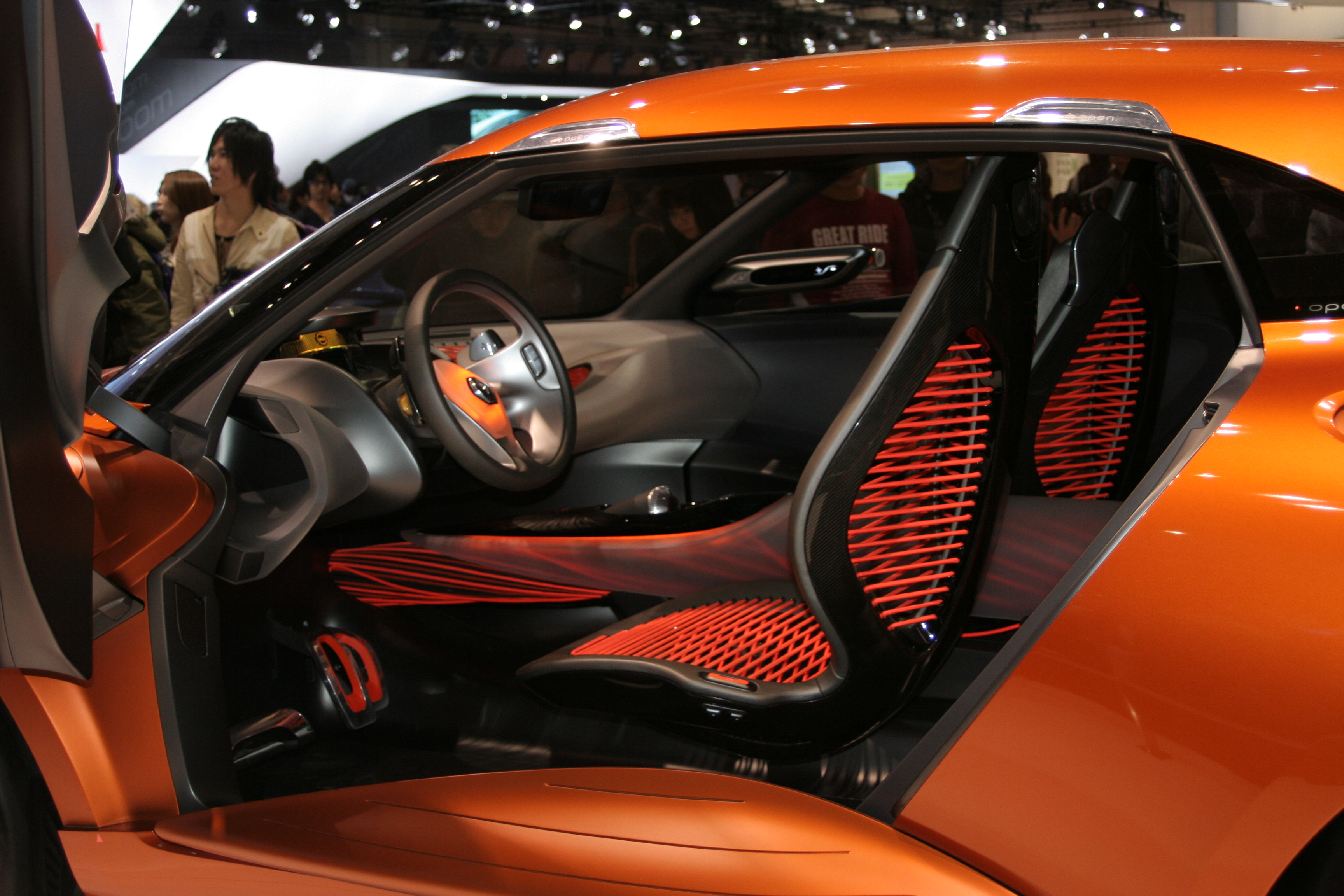 Renault Captur in Tokyo Motor Show 2011.